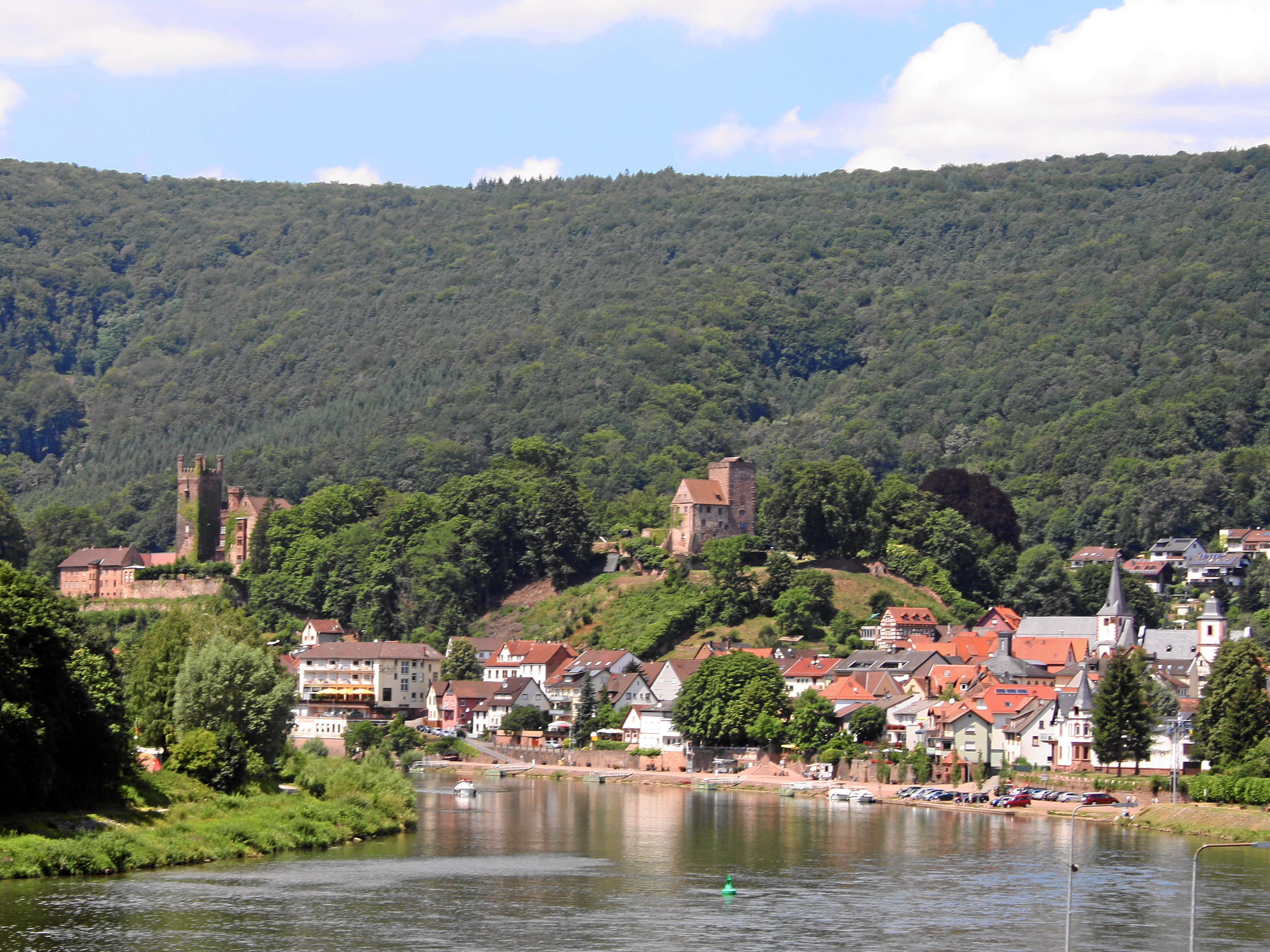 Neckarsteinach, Germany. Old town from South with medieval castles Mittelburg (left) and Vorderburg (center).